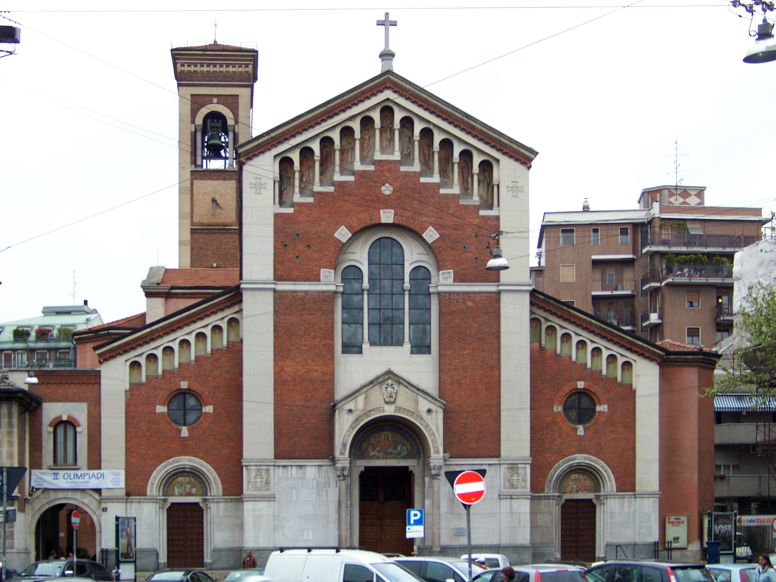 The San Pietro in Sala church, which was the last church we saw in Milan. It was right across the street from the fod market.